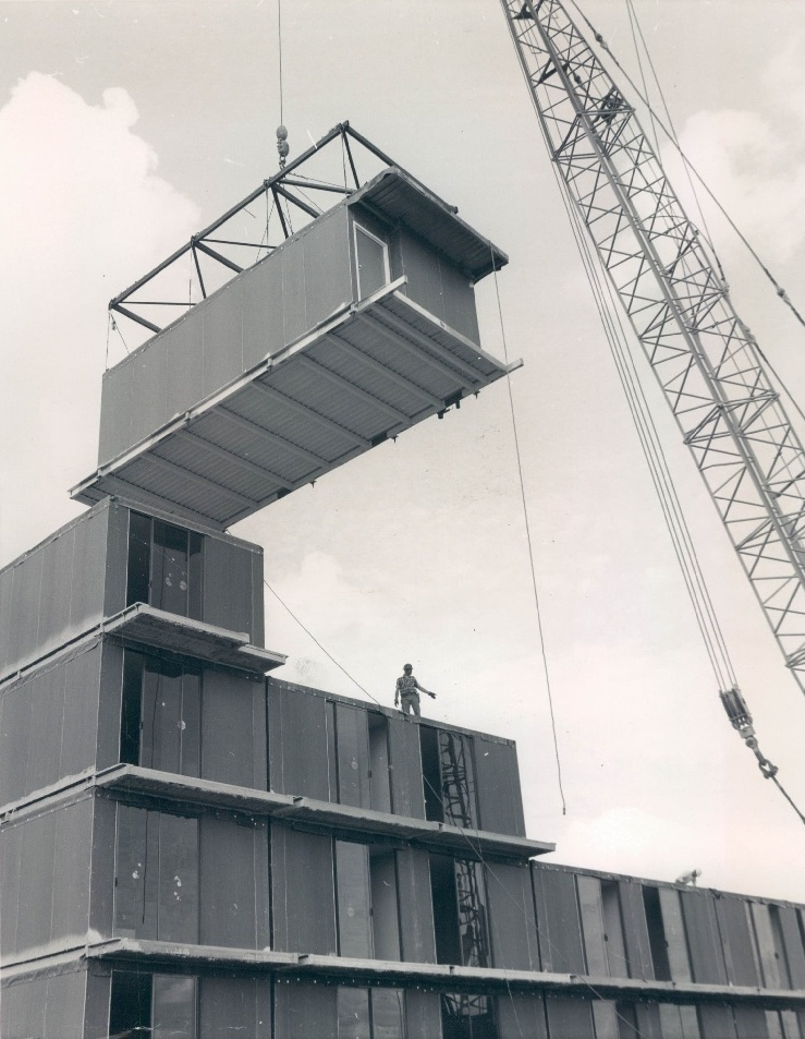 The Court of Flags, Orlando Florida construction by US STEEL back in 1972